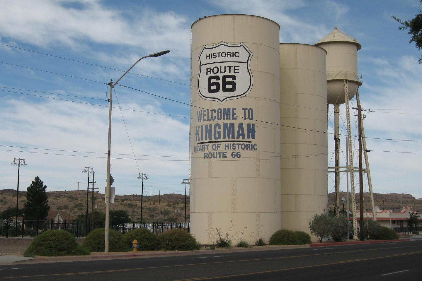 The old water towers in the edge of the downtown of Kingman, ArizonaKingman, Arizona at Route 66.